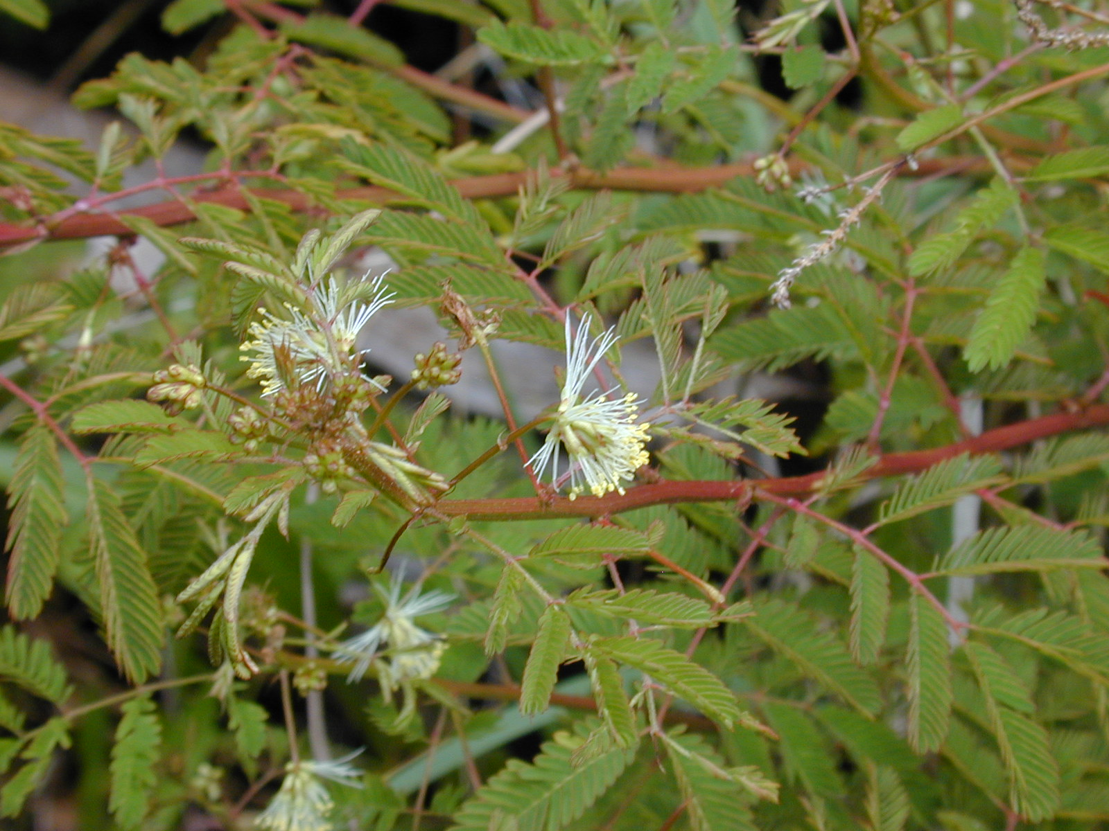 Desmanthus pernambucanus (flowers). Location: Maui, Makawao Forest Reserve